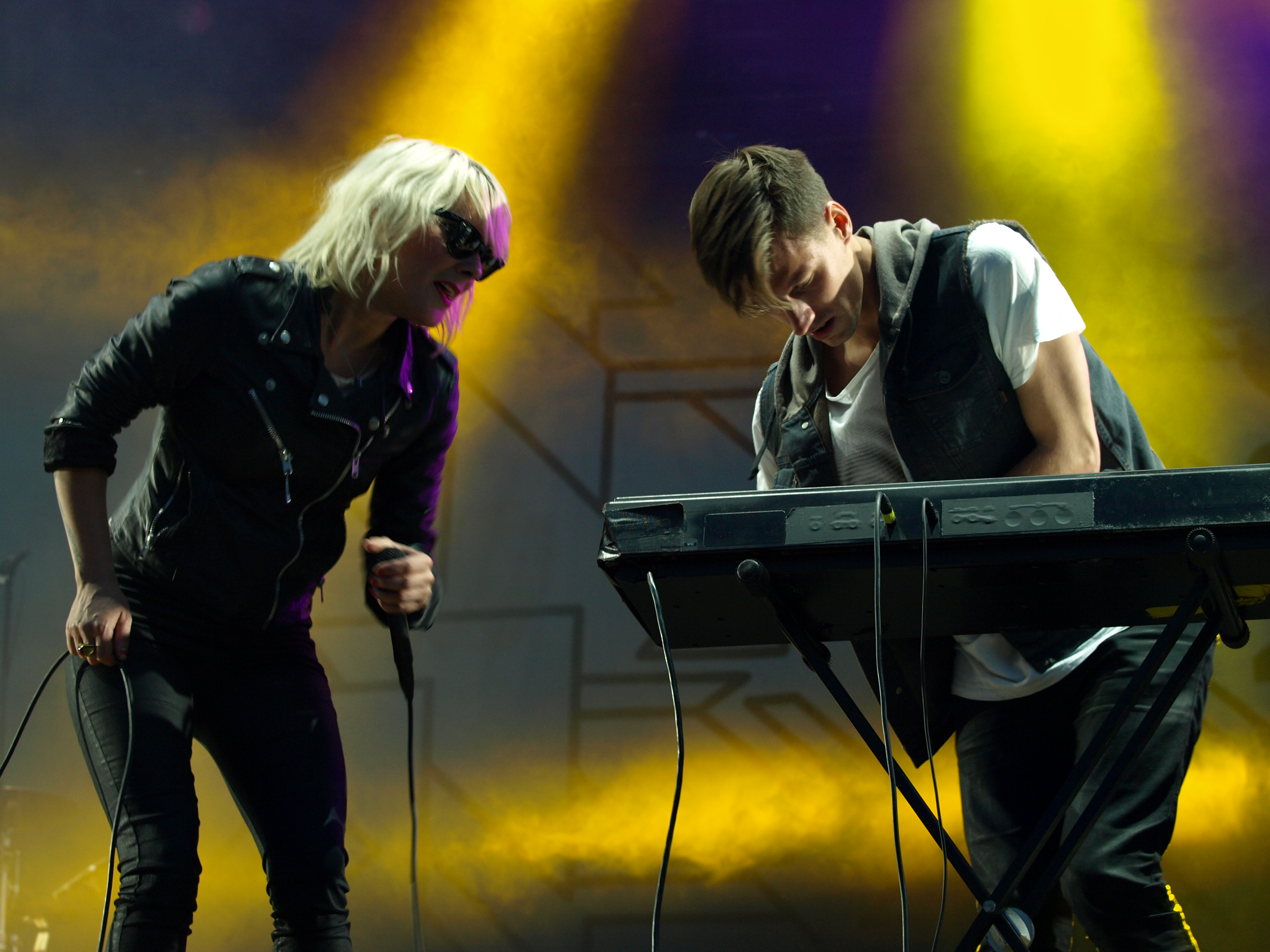 Swedish band The Sounds live at Provinssirock 2013